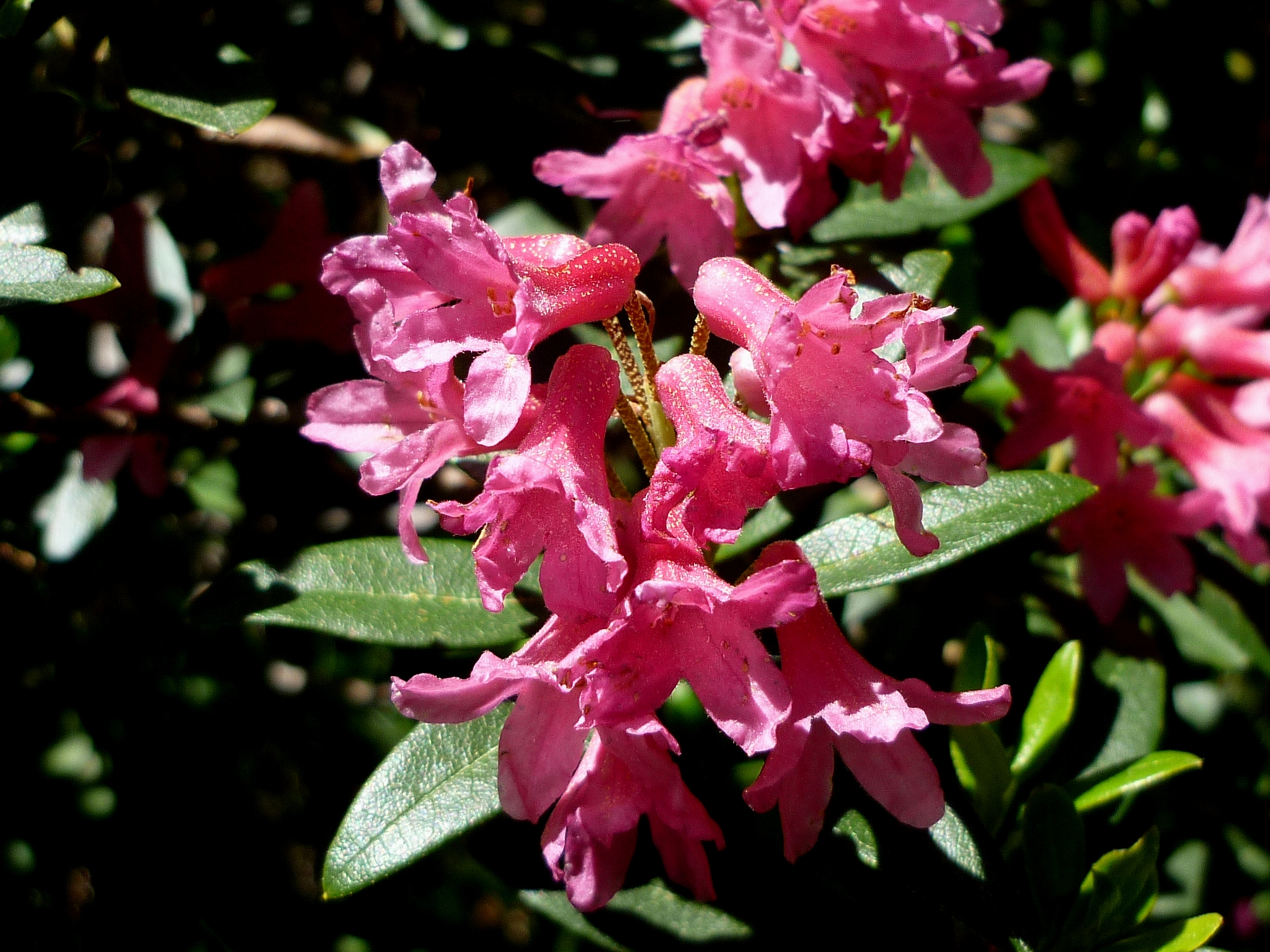 Rhododendron ferrugineum. In the Cadinell (Josa i Tuixèn-Alt Urgell-Catalunya). To 1.850 m. altitude.